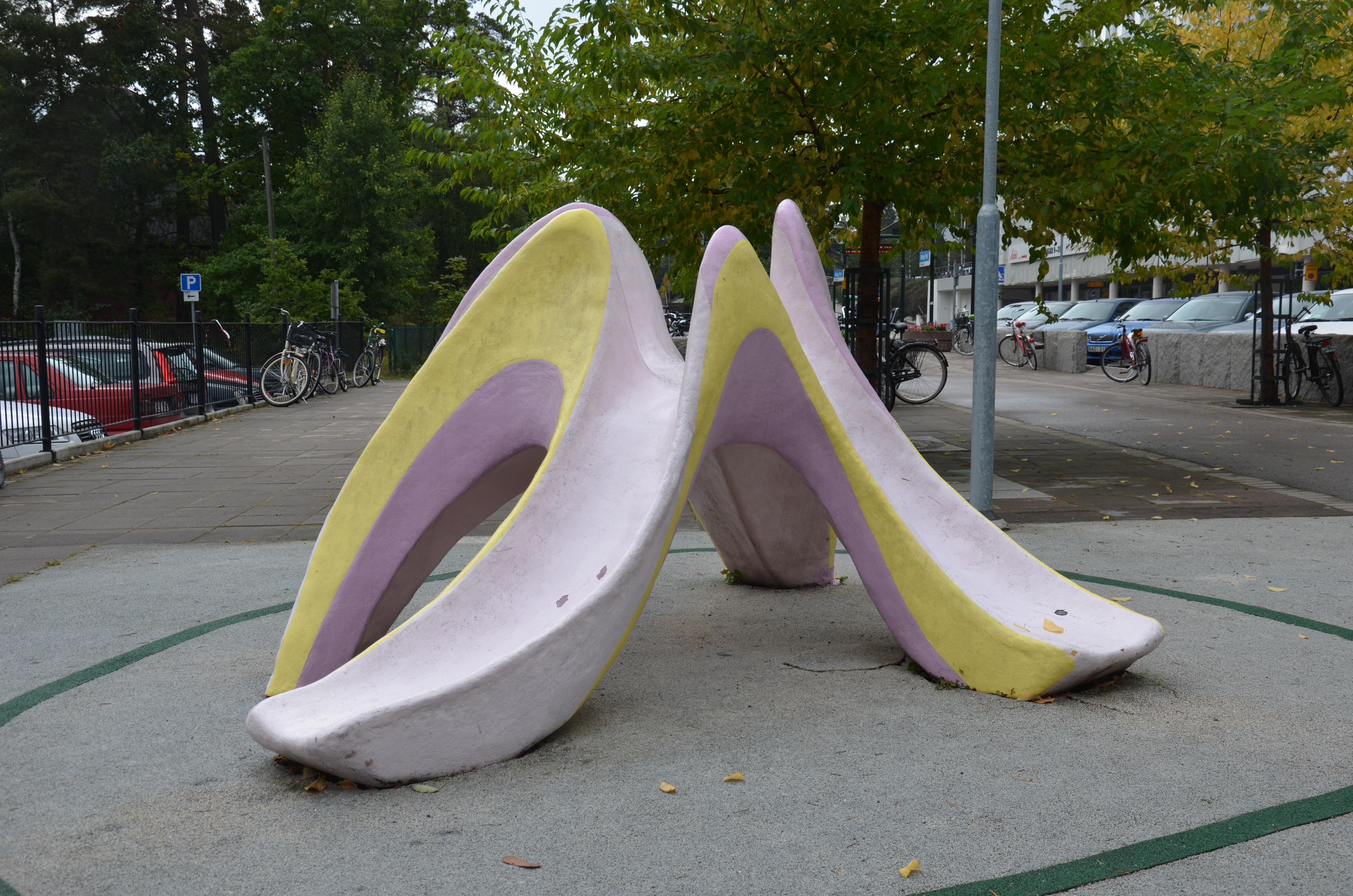 Axel Nordells Orkidé i glasfiberarmerad plast, utanför Näsby Parks centrum, Eskadervägen norr in Näsby Parks station, 1973